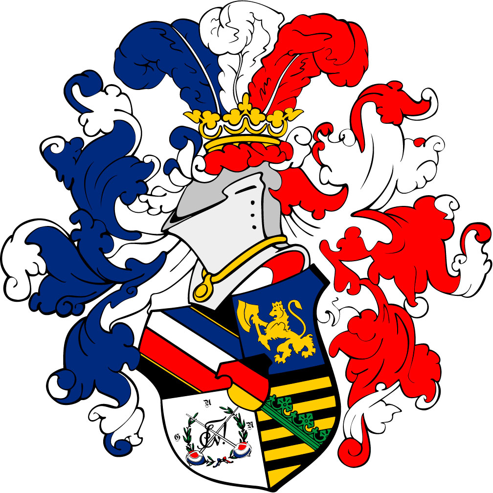 coat of arms of the Landsmannschaft Saxonia Stuttgart